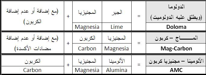 الحراريات المستخدمة في مجال الصلب